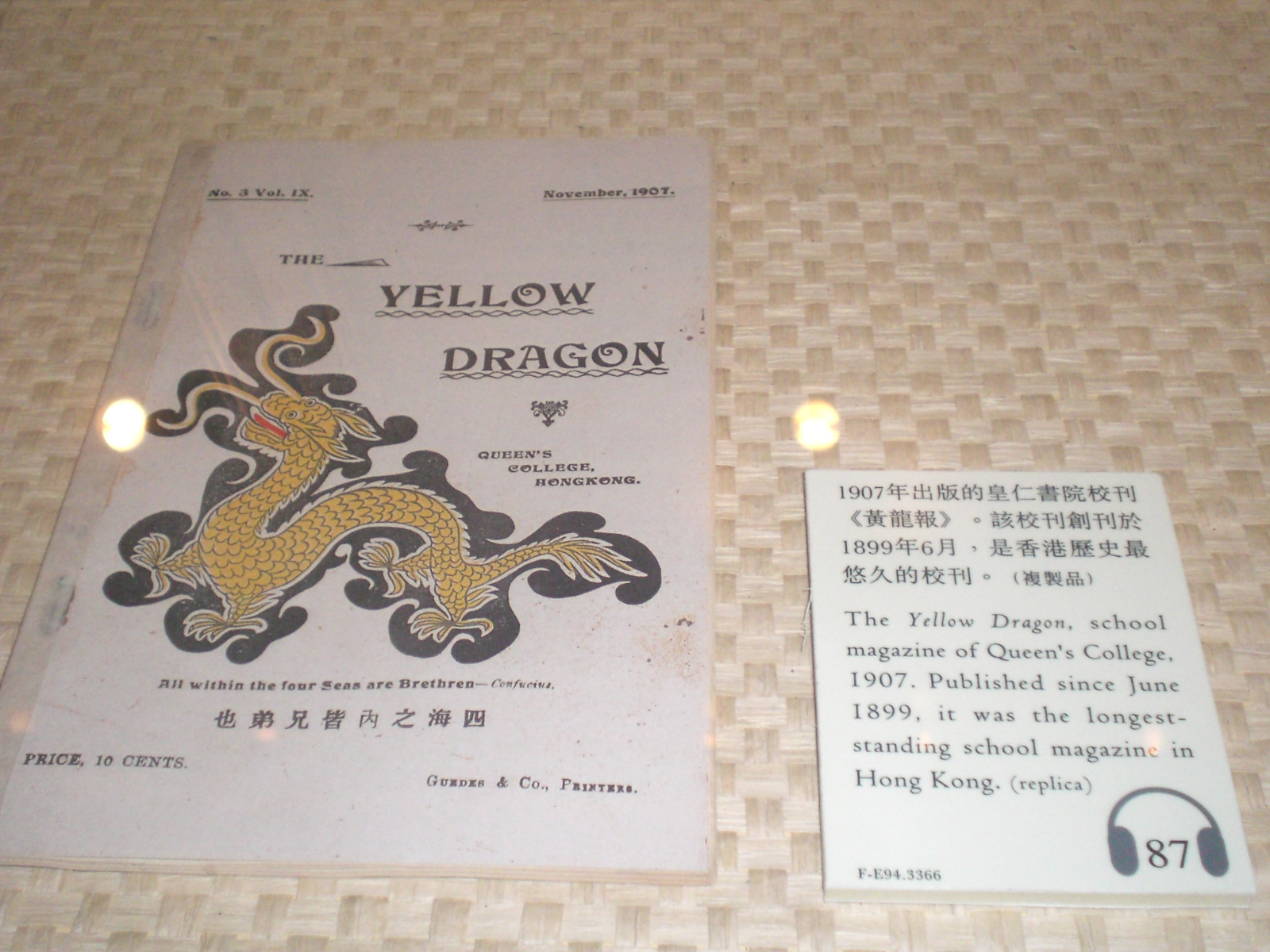 香港歷史博物館, Hong Kong Museum of History, 皇仁書院zh:校刊